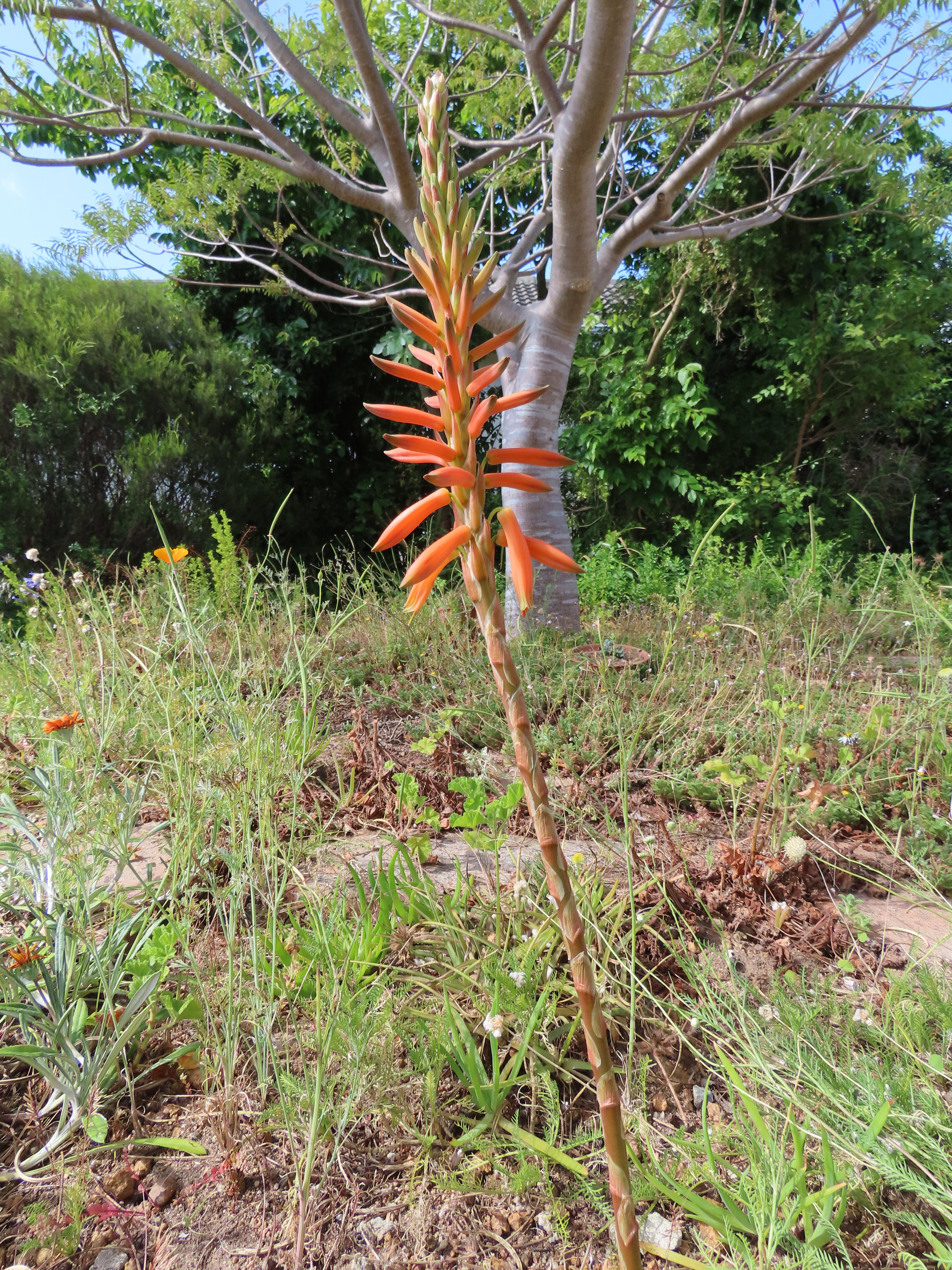 Aloe brevifolia indeterminate raceme. Note that the raceme is unbranched.